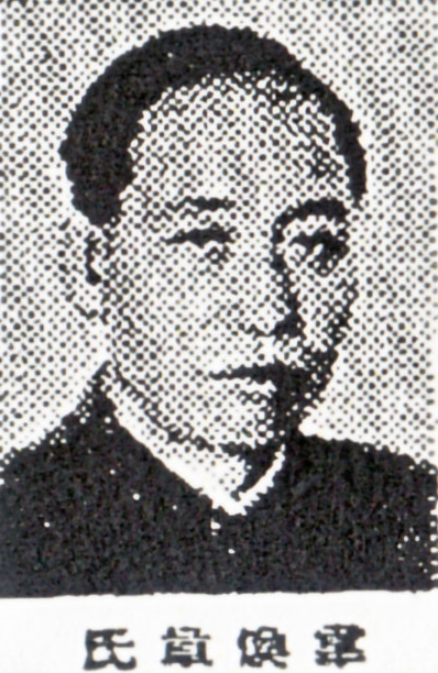 Wei Huanzhang (Wei Huan-chang) (1892 - ?)